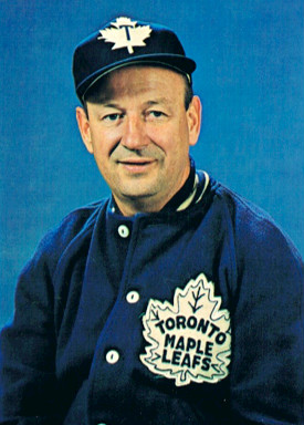 Trading card photo of Punch Imlach, who was an executive for the Toronto Maple Leafs. These cards were printed on the backs of Chex cereal boxes in the US and Canada from 1963 to 1965. Those collecting the cards cut them from the back of the boxes. Imlach's card at PSA.